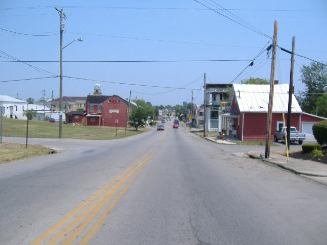 Looking east on Walnut Street in West Union, Ohio.